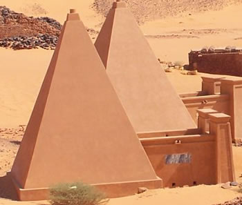 Pyramids of Meroe in Sudan. You see pyramide N26.